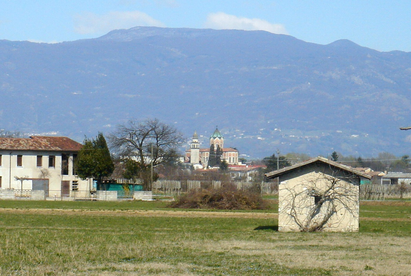 San Fior from the area of via Ongaresca Sony Cyber-shot DSC-T7